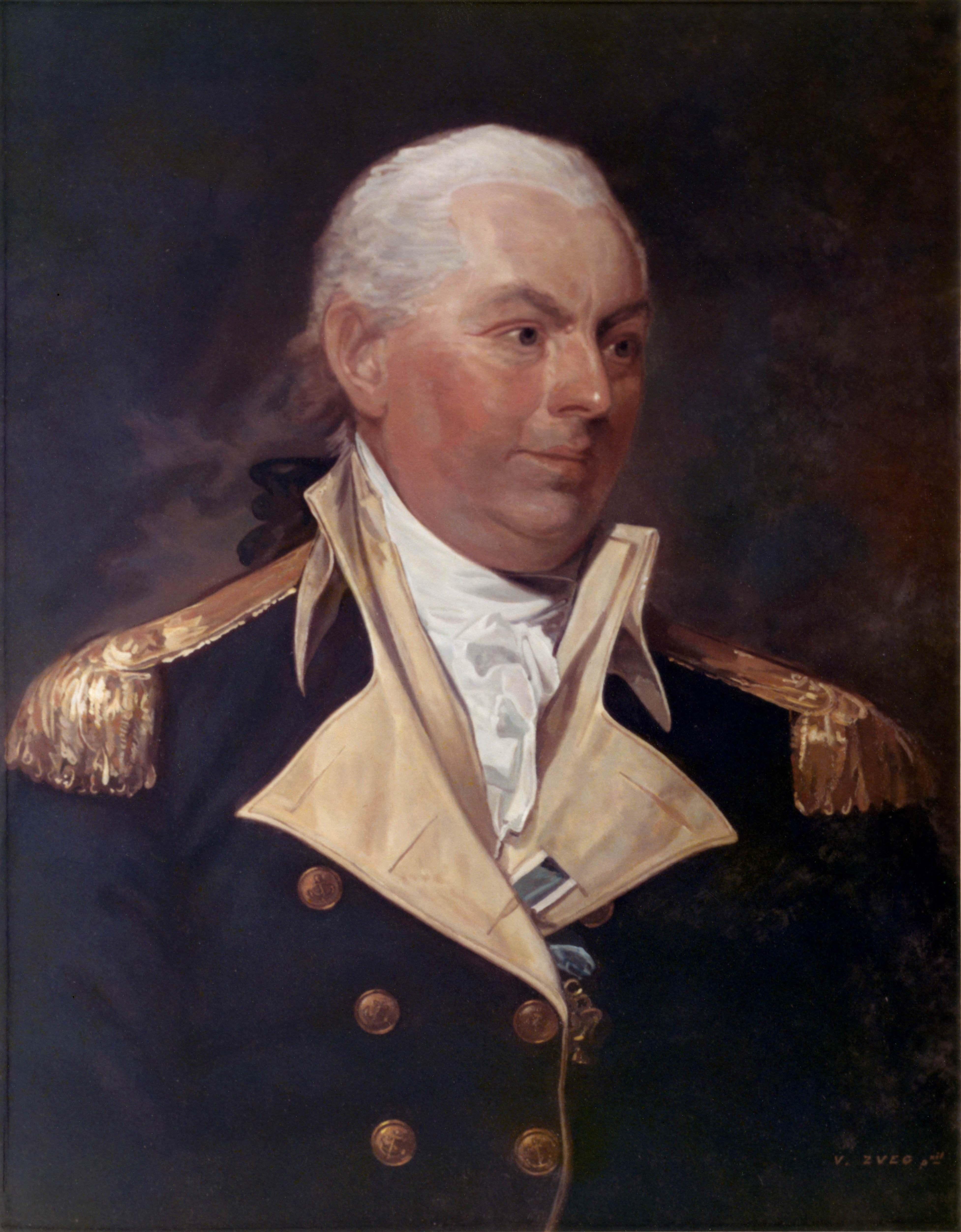 Portrait of Commodore John Barry, US Navy, by V. Zveg, 1972, from the 1801 portrait by Gilbert Stuart. The two images previous posted on this page (shown below) are of the original Stuart Portrait. Notice the buttons. In Stuart's painting, they are dark, while in Zveg's they are metallic.